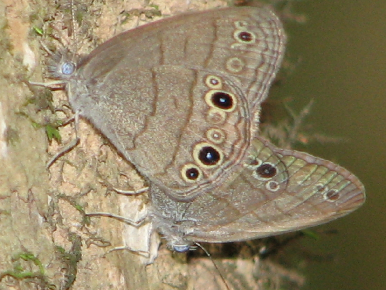 Hermeuptychia sosybius at Congaree National Park, South Carolina, USA